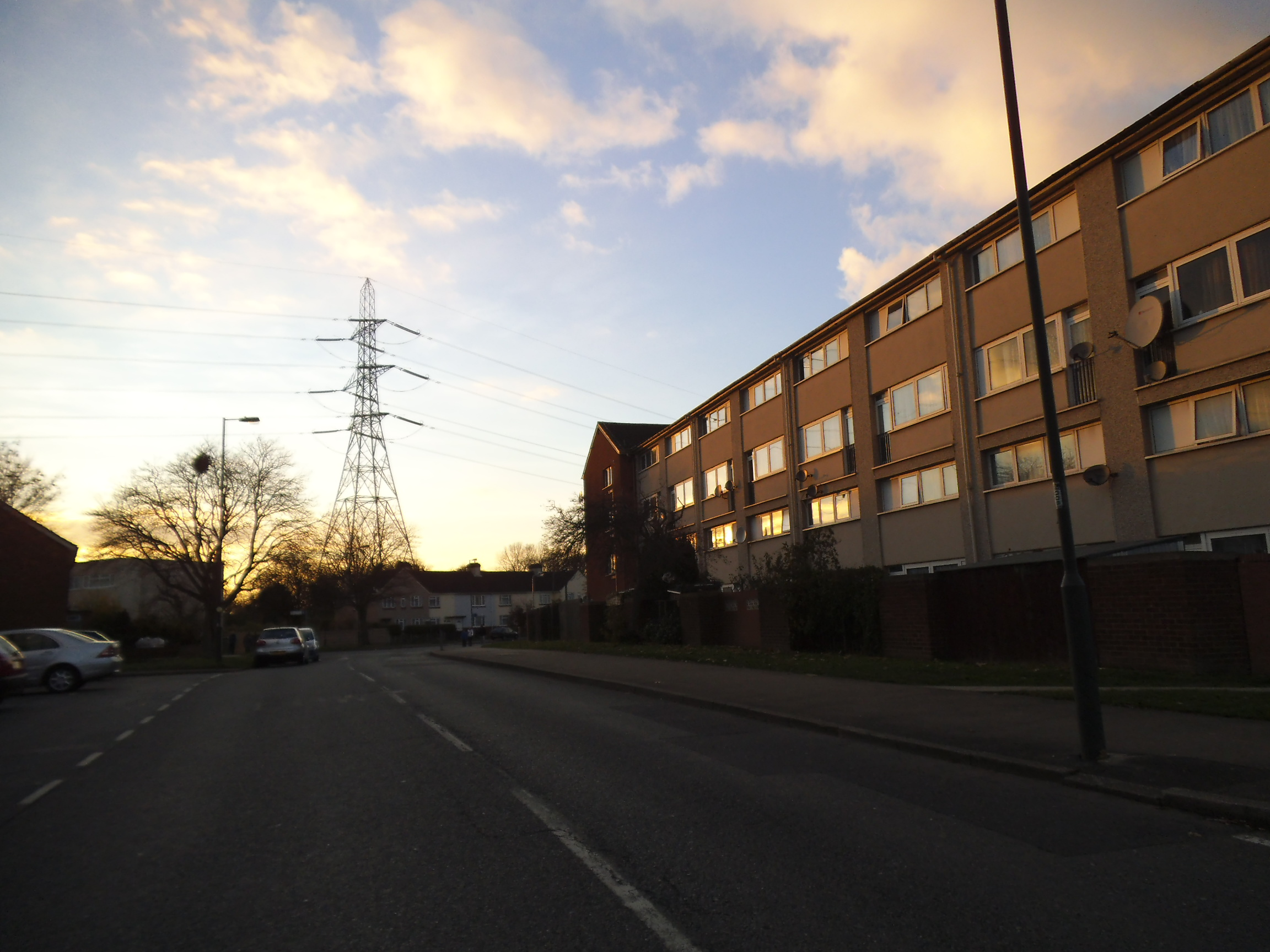 Phipps Bridge Road, Mitcham